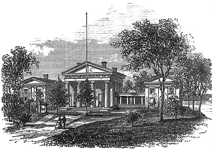 Drawing/wood engraving of the Arkansas state capitol in Little Rock.